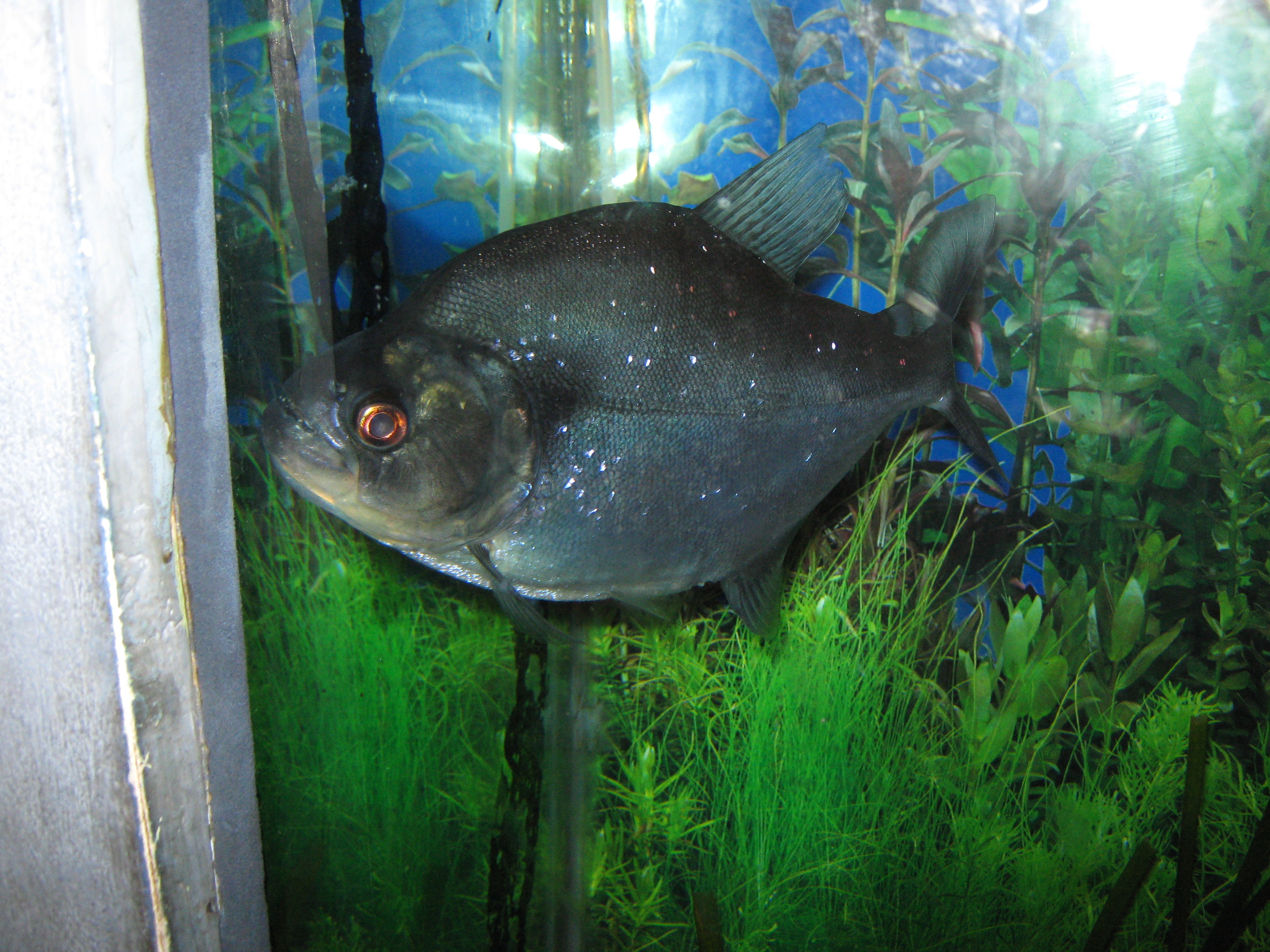 Black piranha (Serrasalmus rhombeus) at Huachipa Zoo in Lima, Peru.